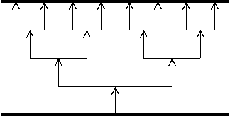 scheme of a Townsend avalanche discharge